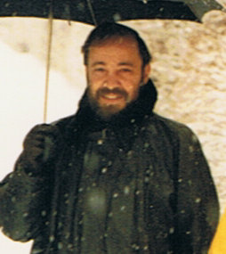 Jordi Agustí, spanish paleontologist. At the International Symposium on Mammalian Biostratigraphy and Paleoecology of the European Paleogene, Mainz, Germany, February 1987.